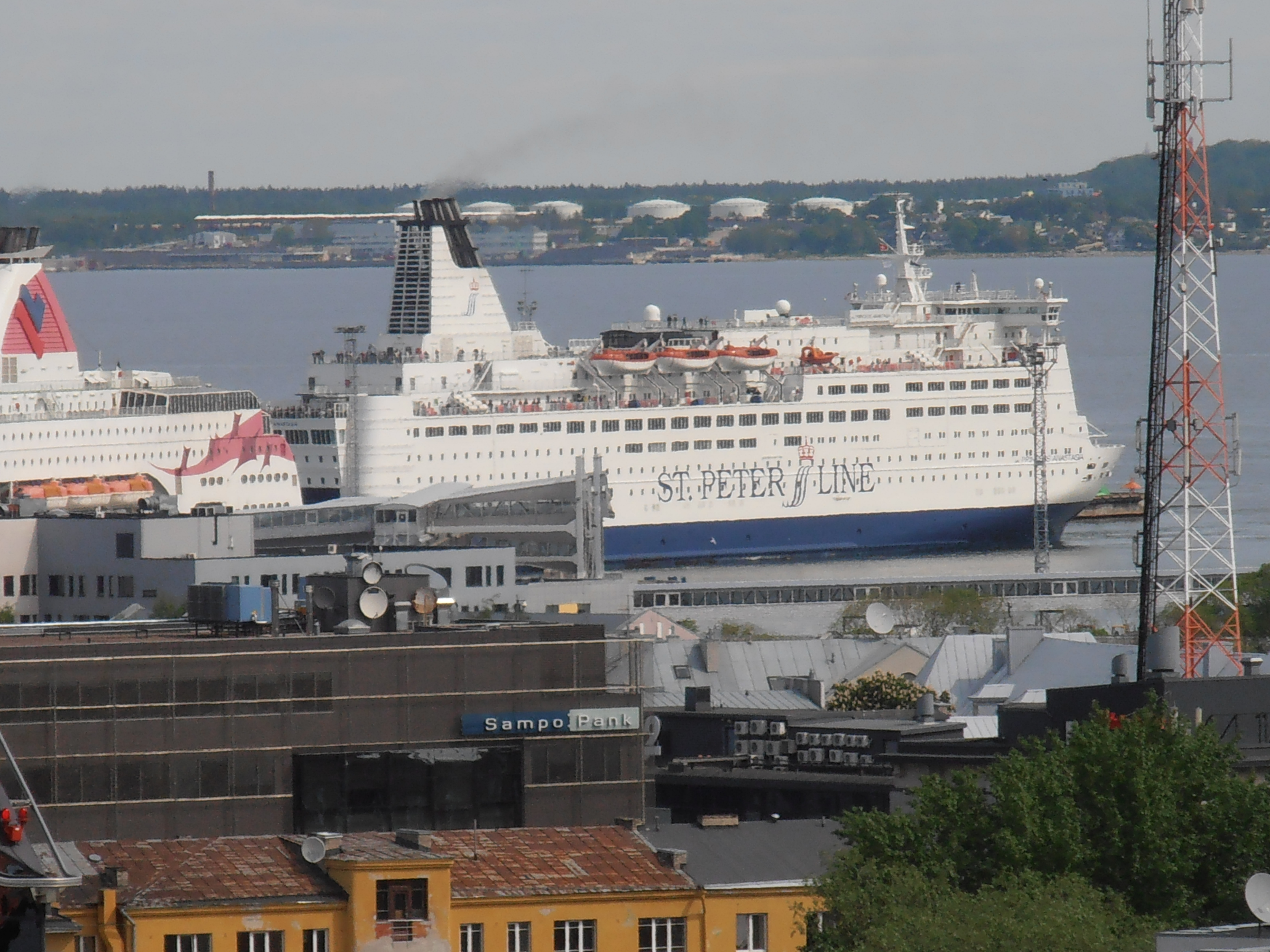 SPL Princess Anastasia in Tallinn 31 May 2012 (Baltic Princess at quay 7)